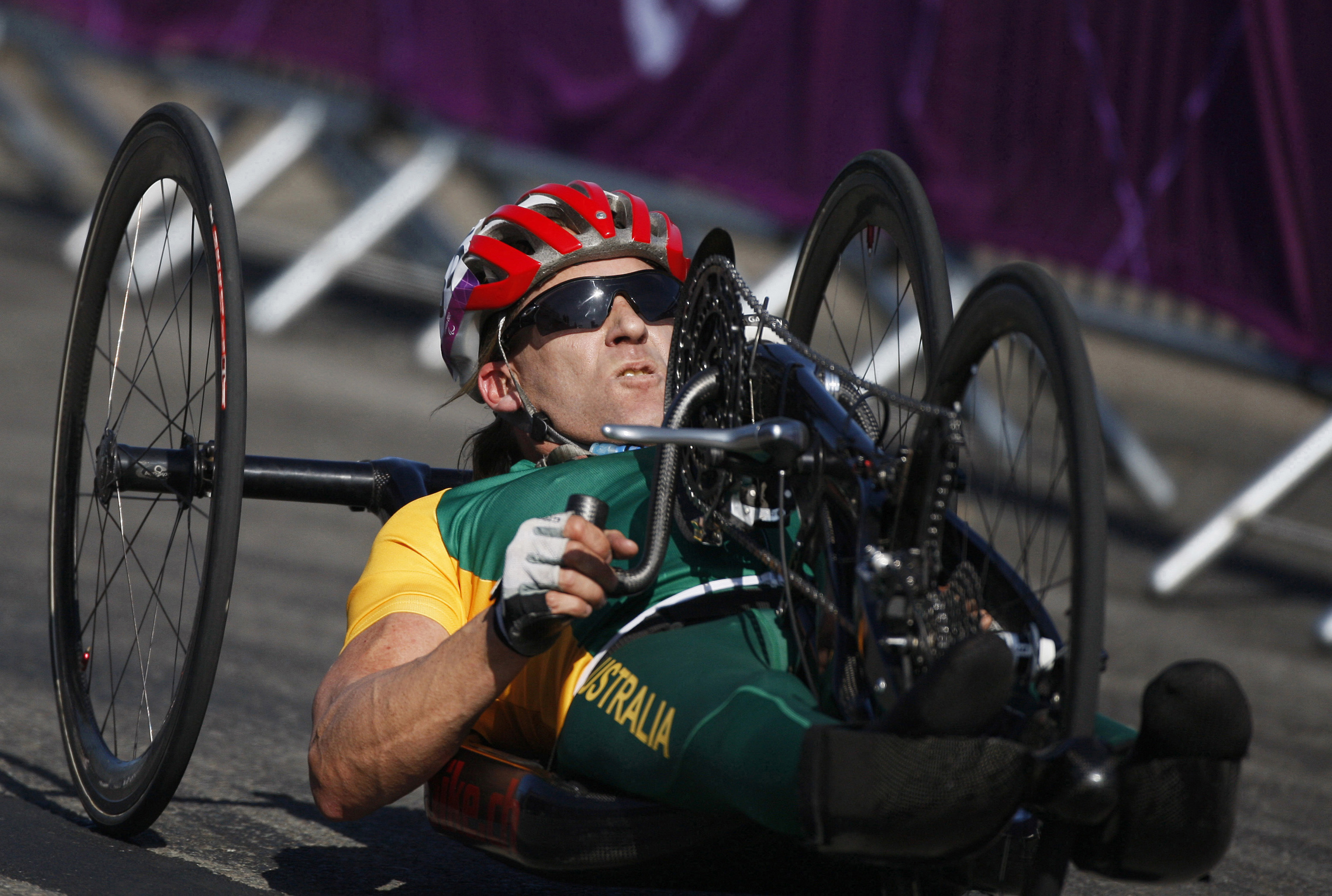 Photograph of Australian Paralympic team member Nigel Barley at the 2012 Summer Paralympic Games in London